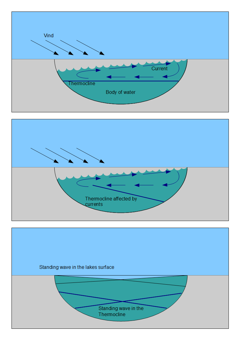 Illustration of the phenomenon of seiches in a lake.